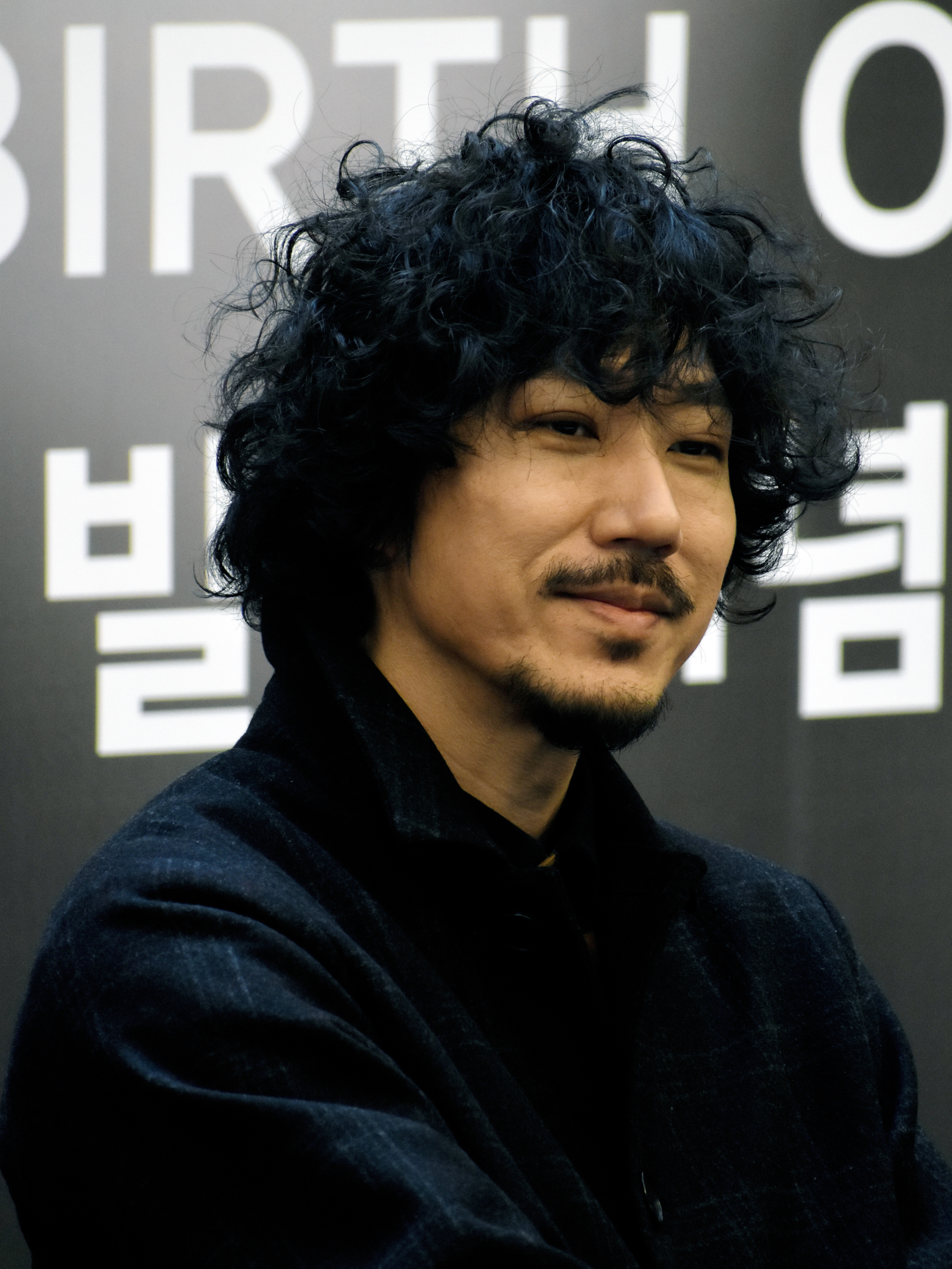 Drunken Tiger at a fansign event at AK Plaza in Bundang on December 2, 2018.